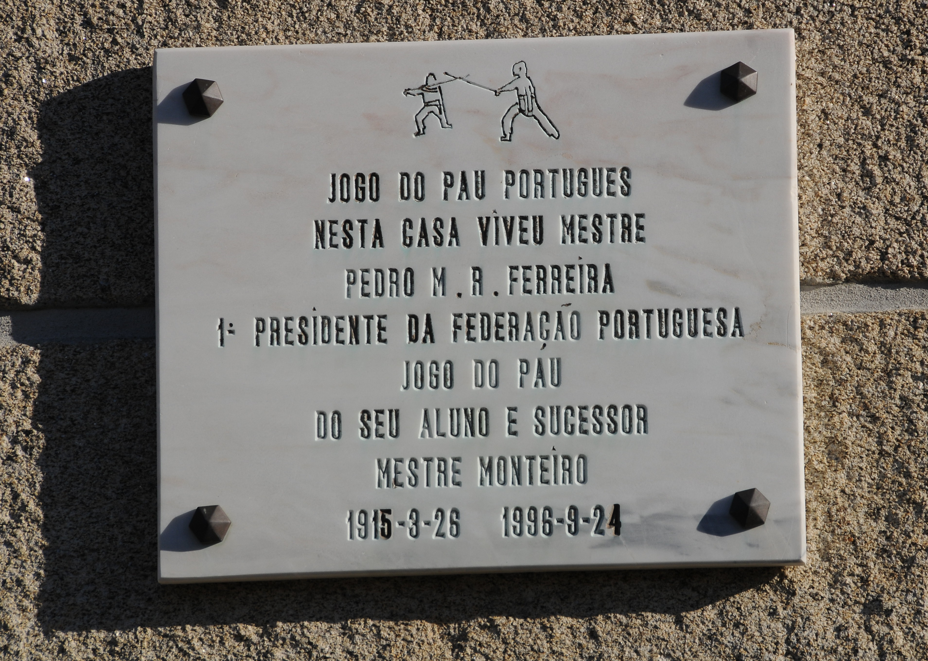 Plaque in Alvaredo, Melgaço